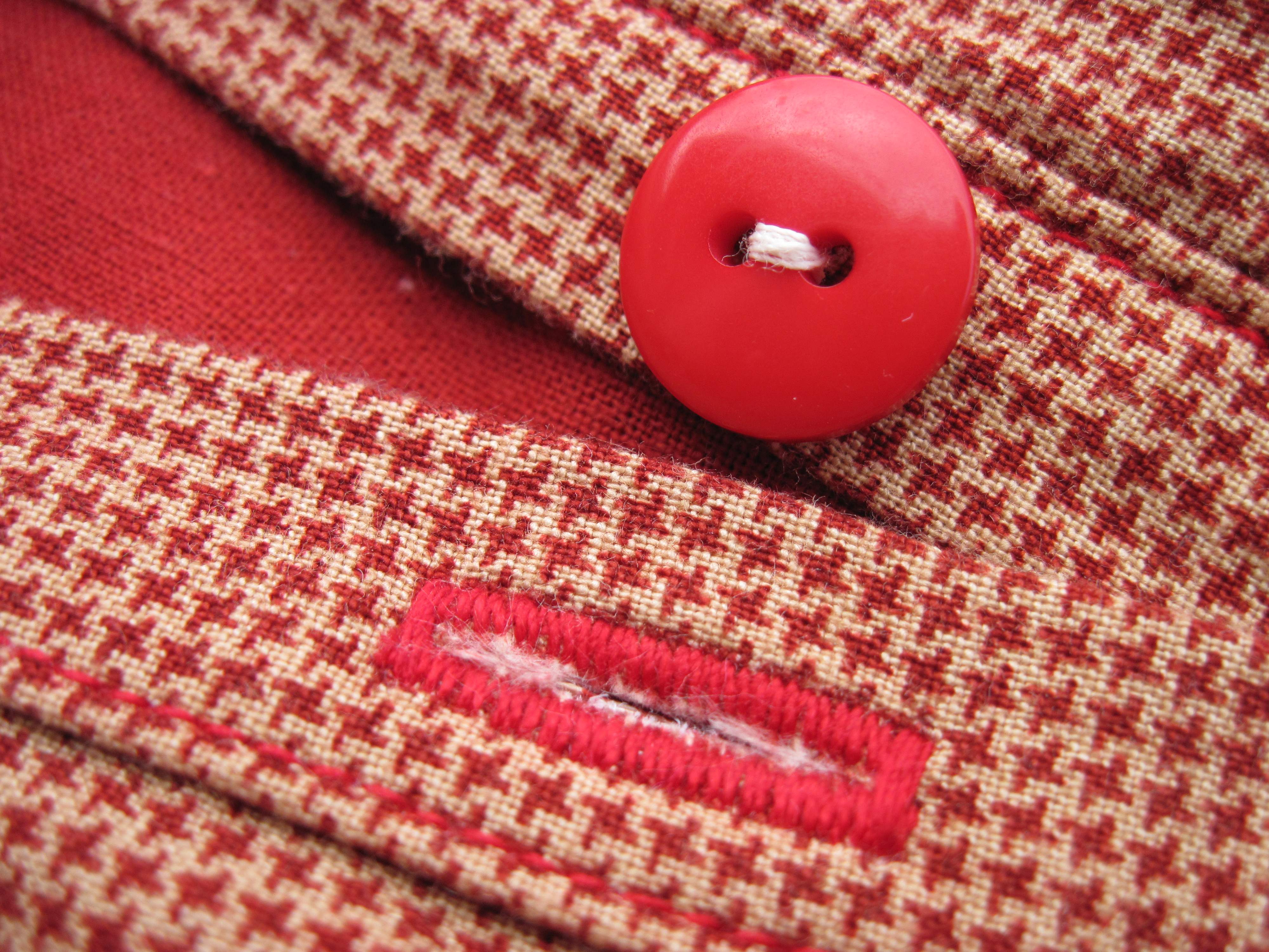 Machine-sewn buttonhole on red and white houndstooth fabric.